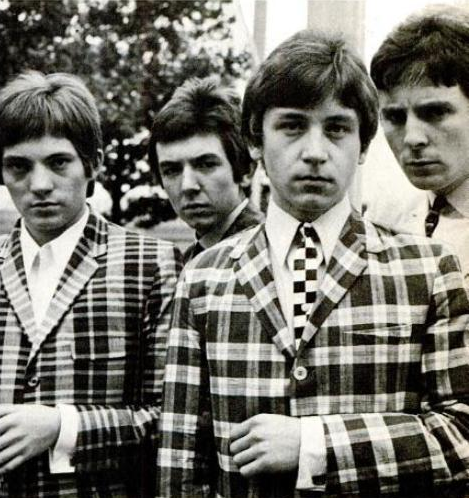 Trade ad for Small Faces's single "Whatcha Gonna Do About It".To better adapt it to his respective Wikipedia article, the ad was cropped and cleaned in a graphics editing program. The original can be viewed at the source below.